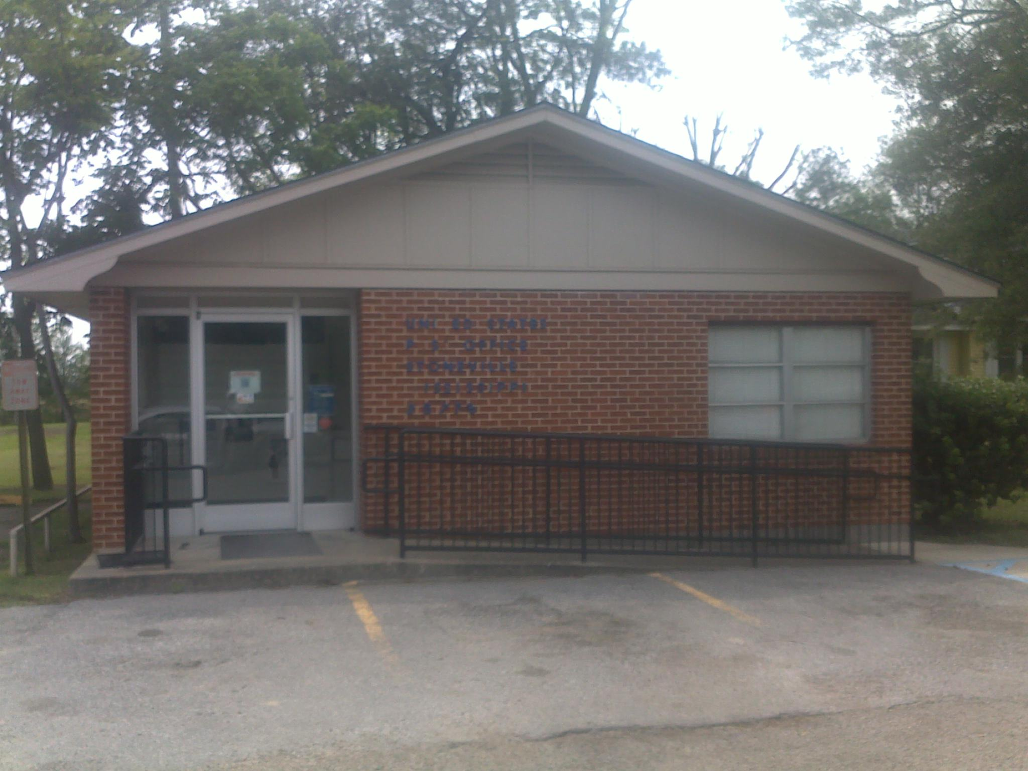 Stoneville Mississippi Post Office